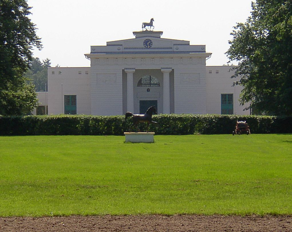 Riding hall in Redefin in Mecklenburg-Western Pomerania, Germany